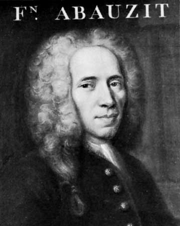 The in geneve living scholar Firmin Abauzit (1679-1767)